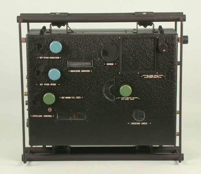 The "computor" (as it was then known) of the RAF Mk. XIVA bombsight. This is one half of the system, the other is the "sighting head" that is shown separately. The computor had only four major controls, the wind direction and speed set on the blue dials, and the bomb's terminal velocity and the altitude of the target, set on the green dials. Several windows that display output values like airspeed can be seen. The square in the upper right normally held a card with levelling and bomb data, held in metal clips that are missing on this example. The fittings for suction air, pressurized air, and the inputs from the pitot tube and static air fittings can be seen on the left. On the lower right are the outputs to the sighting head. The scales that would normally appear in front of the various reading windows (like "COURSE") are missing in this example.